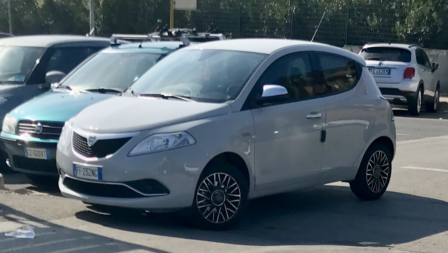 Lancia Ypsilon Mya (facelift)